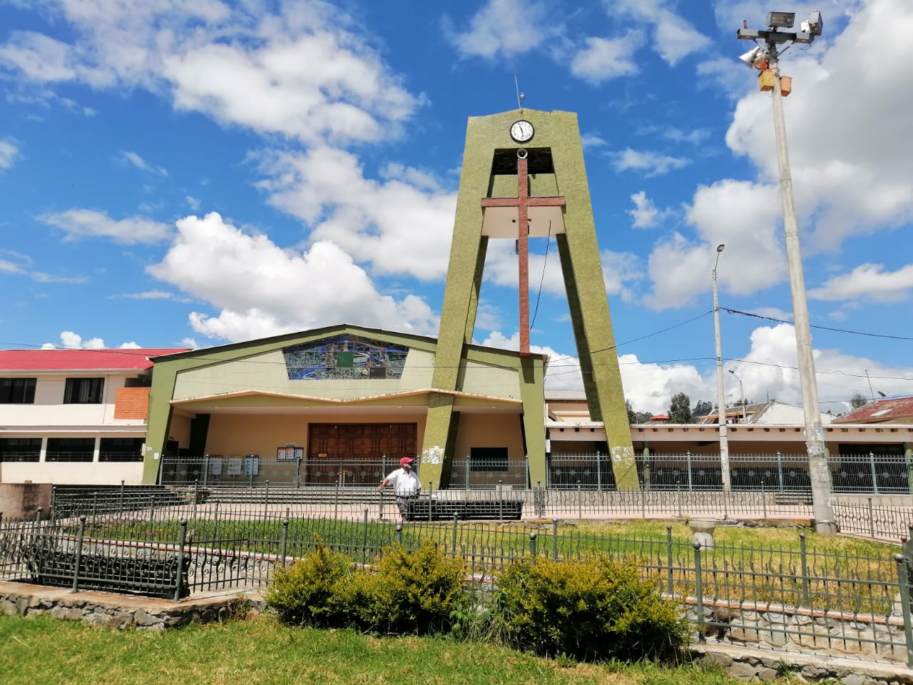 Es la iglesia principal de El Valle, la cual se encuentra en el centro de la parroquia.